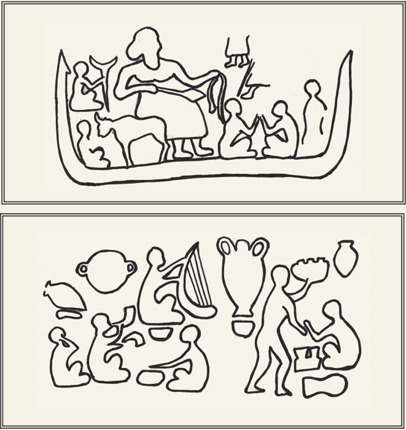 Musicians portrayed on pottery found at Chogha Mish archeological site. The bottom image: Arched harps on Persian seal impressions (second millennium B.C.E.). Čoḡa Miš, Persia, 3300-3100 B.C.E.; a celebrant on a cushion (far right) is faced by an ensemble (left) consisting of a singer, horn player (?), harper, and drummer (Delougaz and Kantor, 1996, Pls. 45N and 155A).